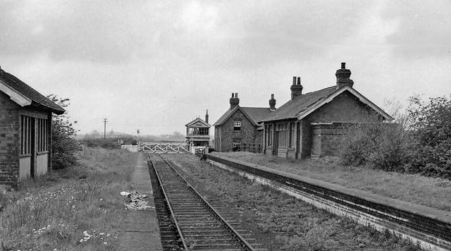 Barmby Station (remains). Barmby on the Marsh, East Riding of Yorkshire, England. View westwards, towards Cudworth; former Hull & Barnsley main line, Hull - Cudworth, closed to passengers 1/1/32, but flourished as route for coal from South Yorkshire collieries to the Port of Hull, so not closed to Goods until 6/4/59. However track is still intact two years after traffic ceased and the station is still 'fairly' intact nearly 30 years after lasting seeing passengers. No doubt there's nothing there now.